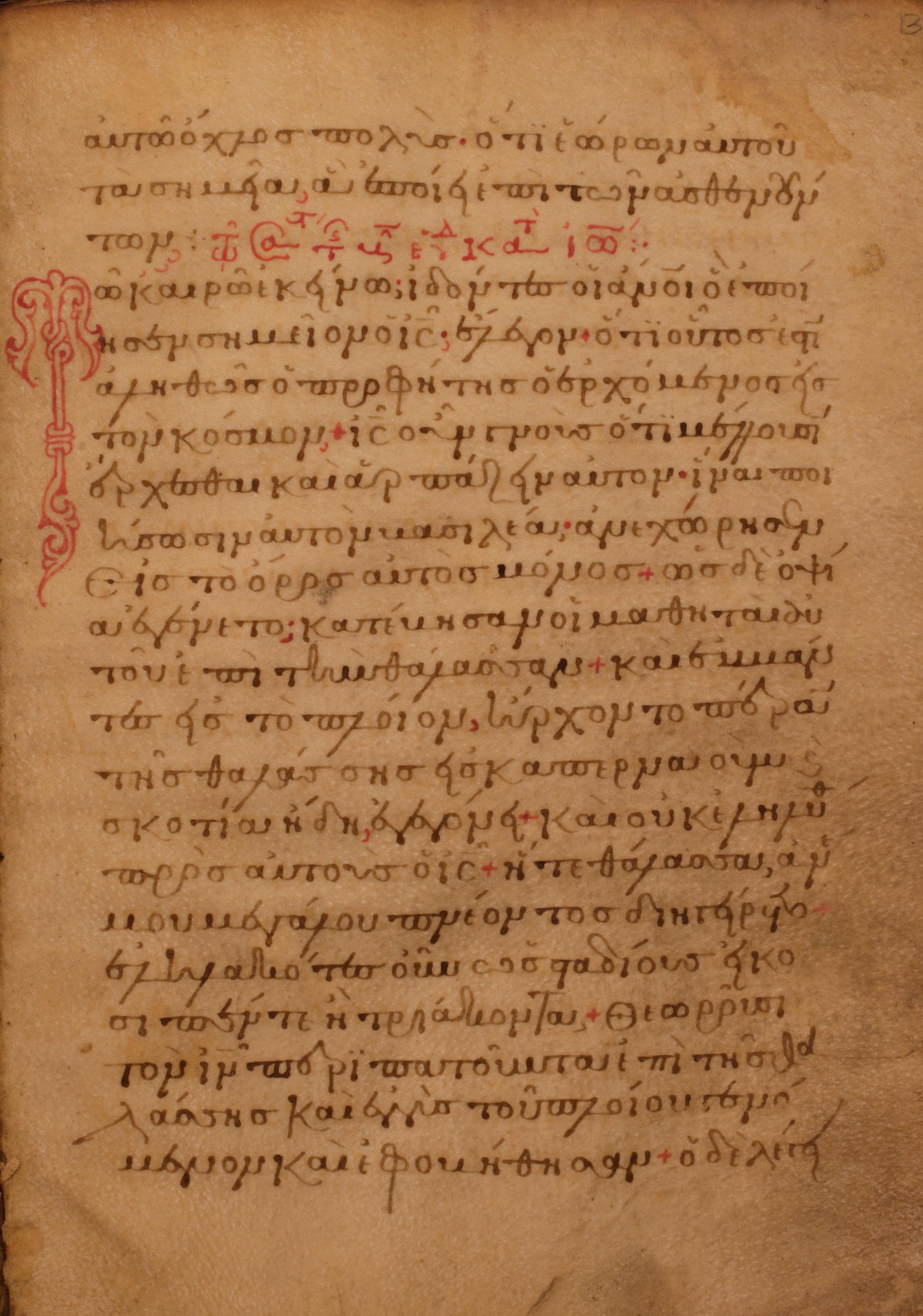 folio 13 recto of the codex